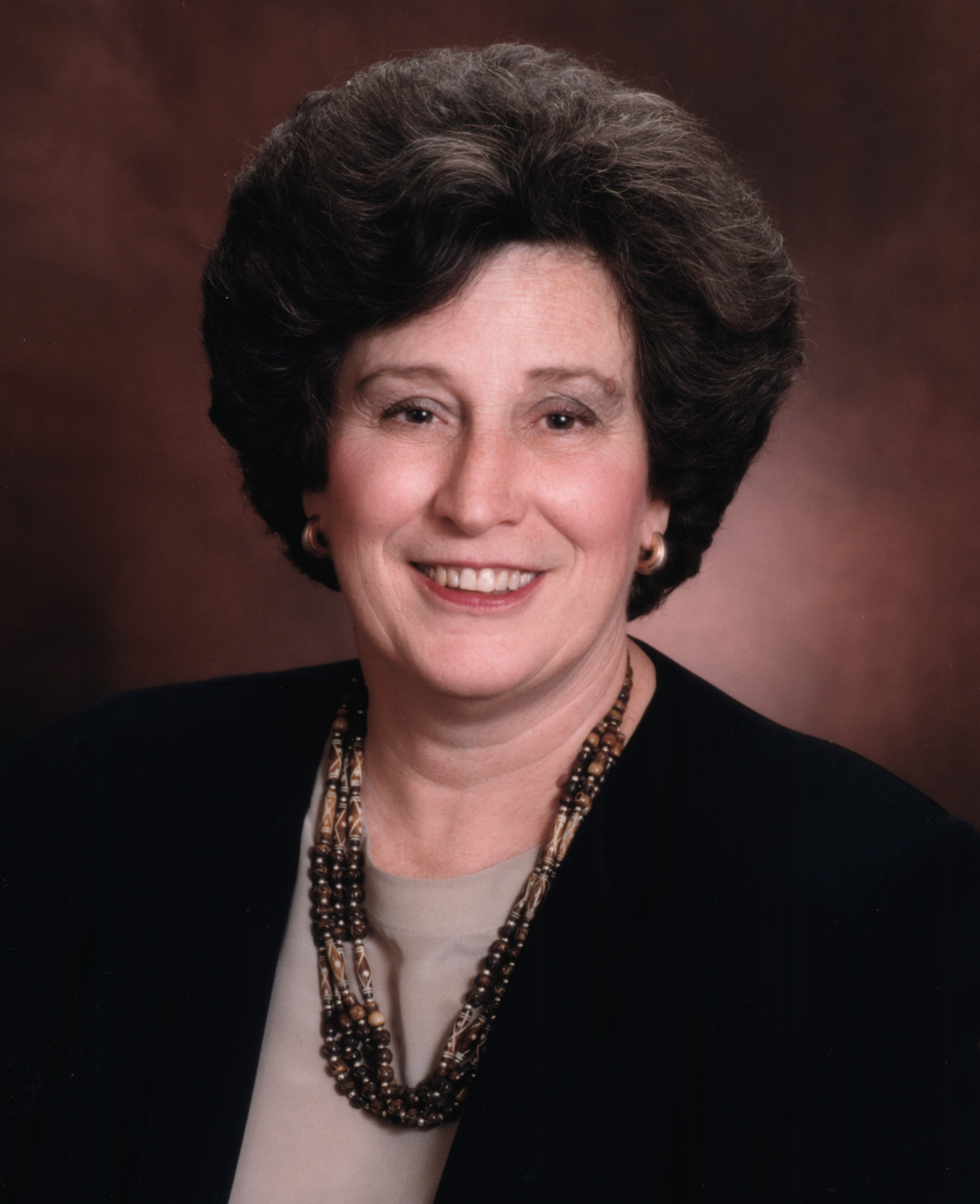 Portrait of Karen Hitchcock, c. 2005